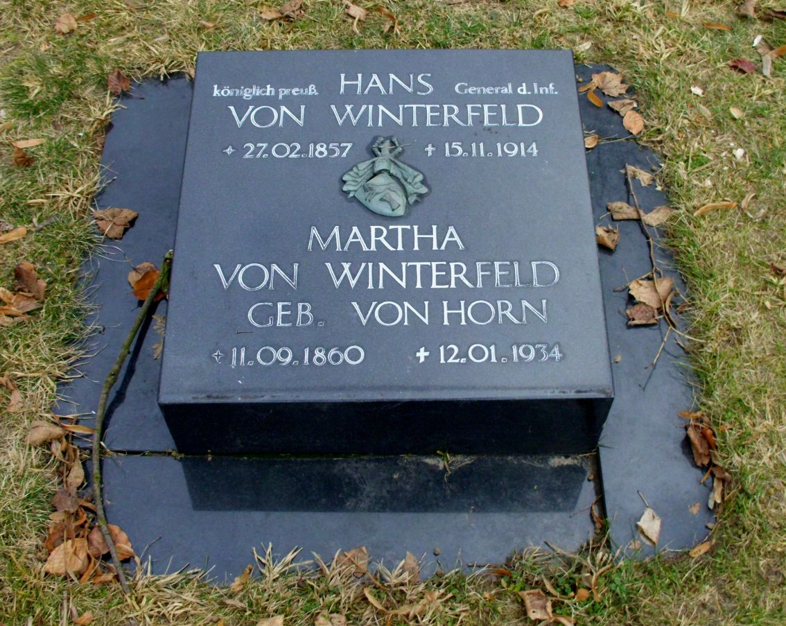 Grave of Hans and Martha von Winterfeld